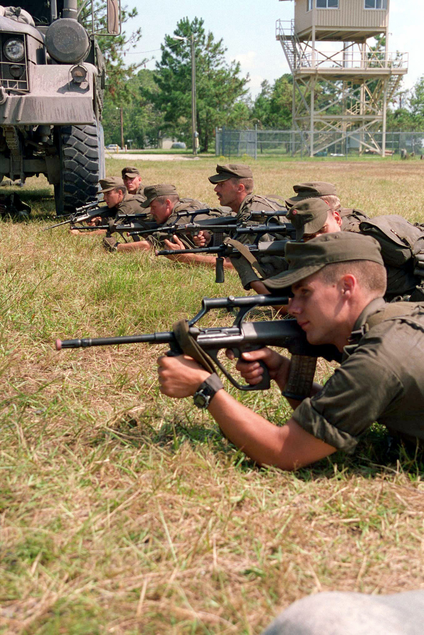 Austrian soldiers armed with STEYR AUG rifles (with blank-firing adaptor attached).